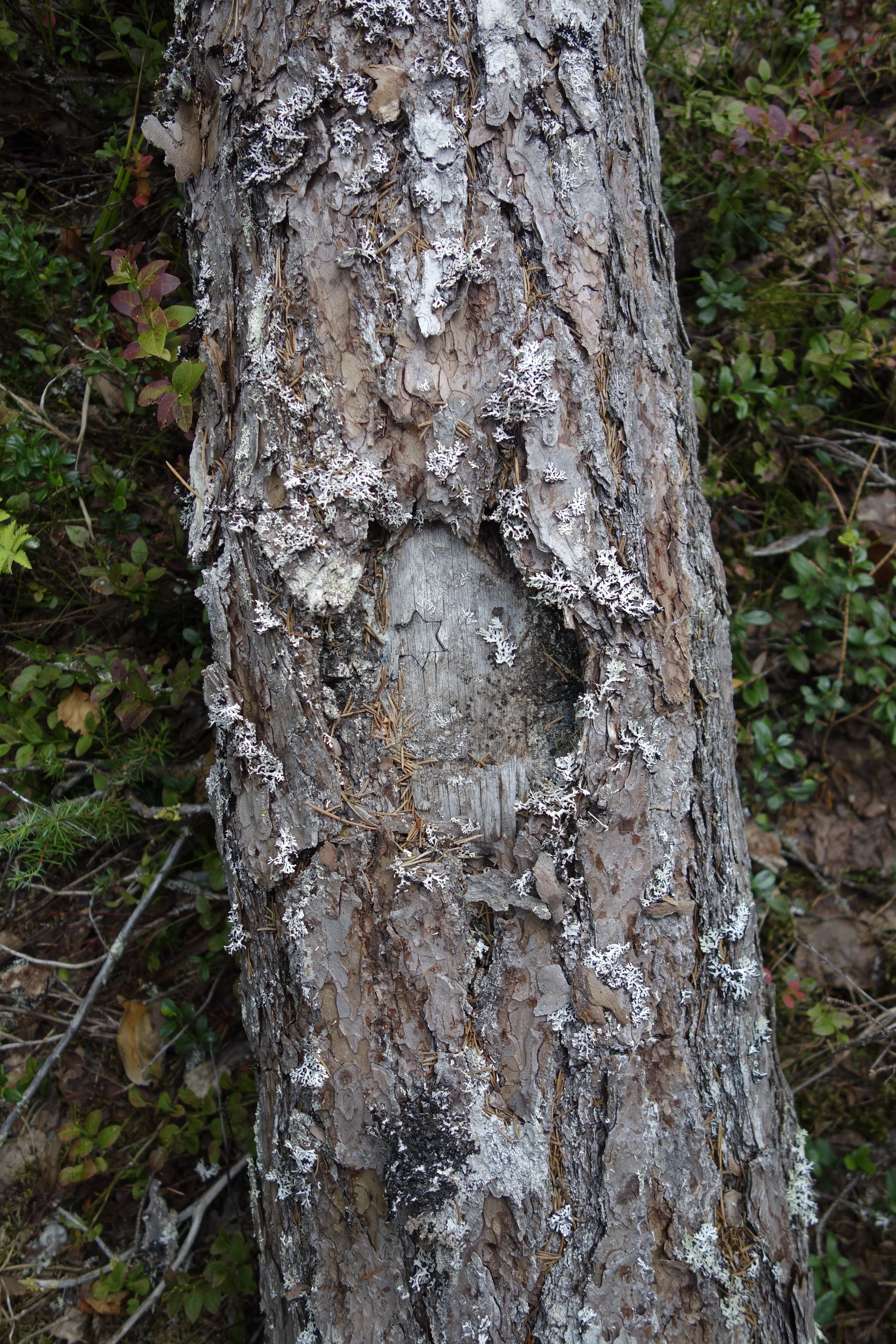 Old marking related to forestry in Käränkävaara Hill, Lieksa, North Karelia, Finland.